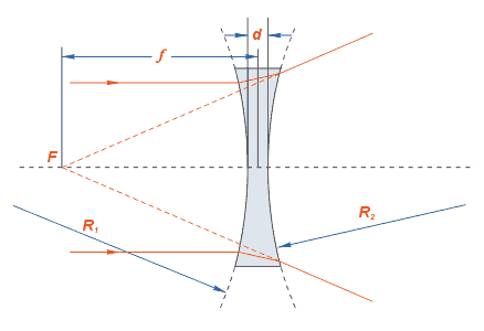 Object: Lens Description: Calculating Lens power Author: Panther Created: Feb 2005 Source: Drawn by Panther using Corel Draw! Licence: GFDL + Cc-by-sa